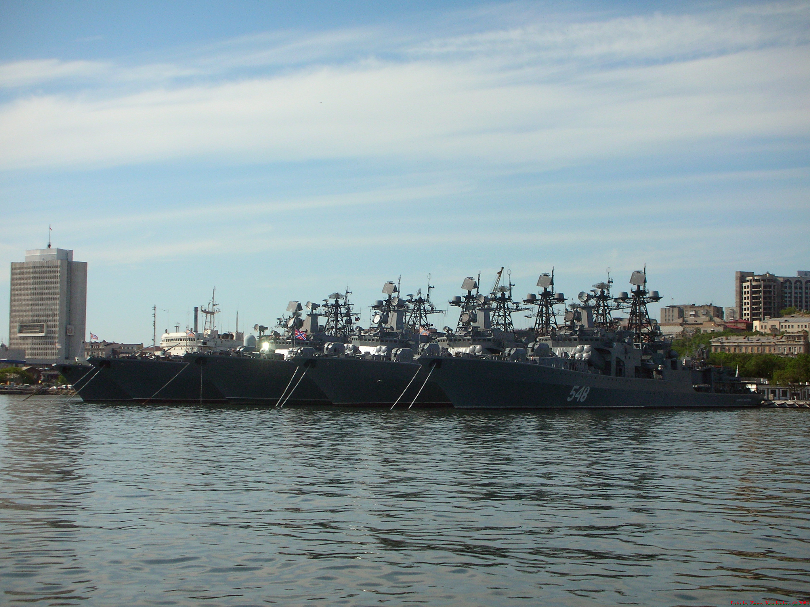 Ships of the Russian Pacific Fleet